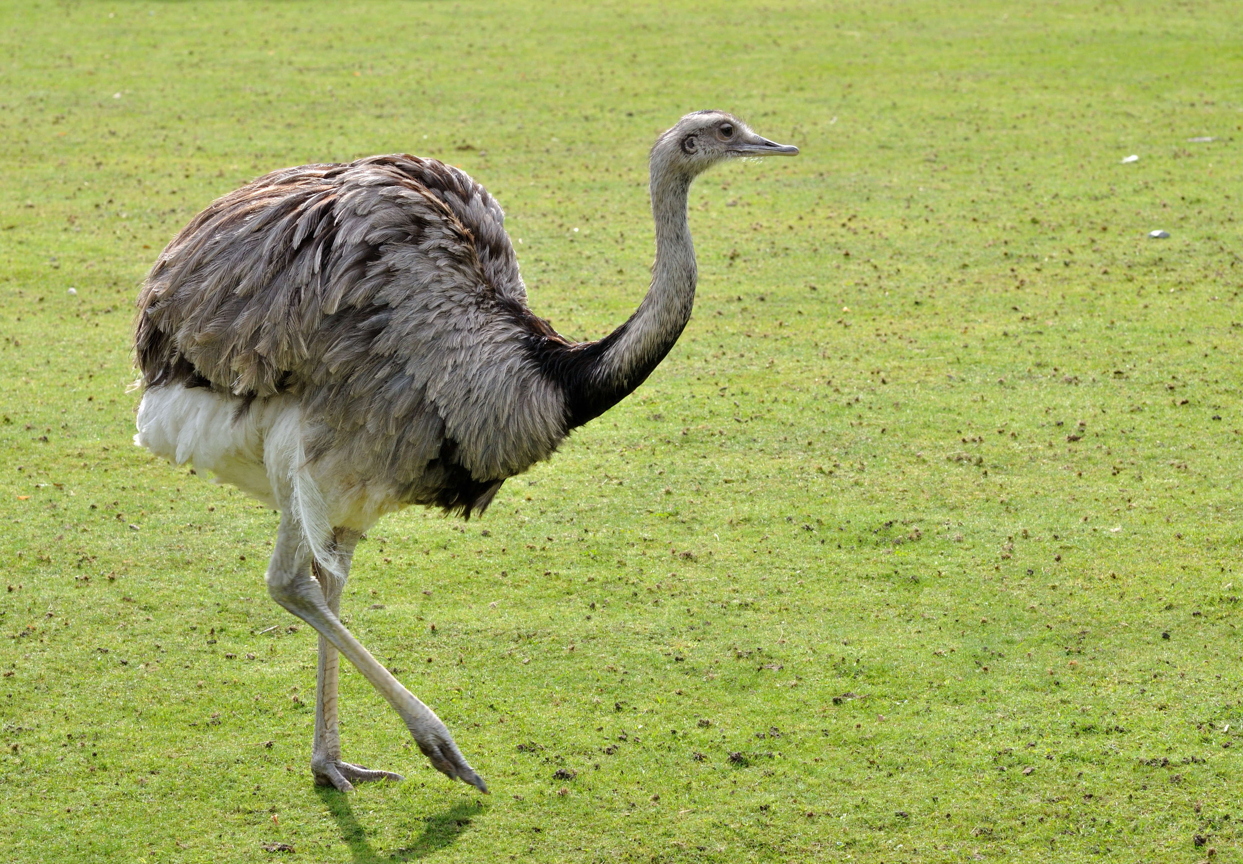 Greater Rhea (Rhea americana) in the Wilhelma, Stuttgart, Germany.